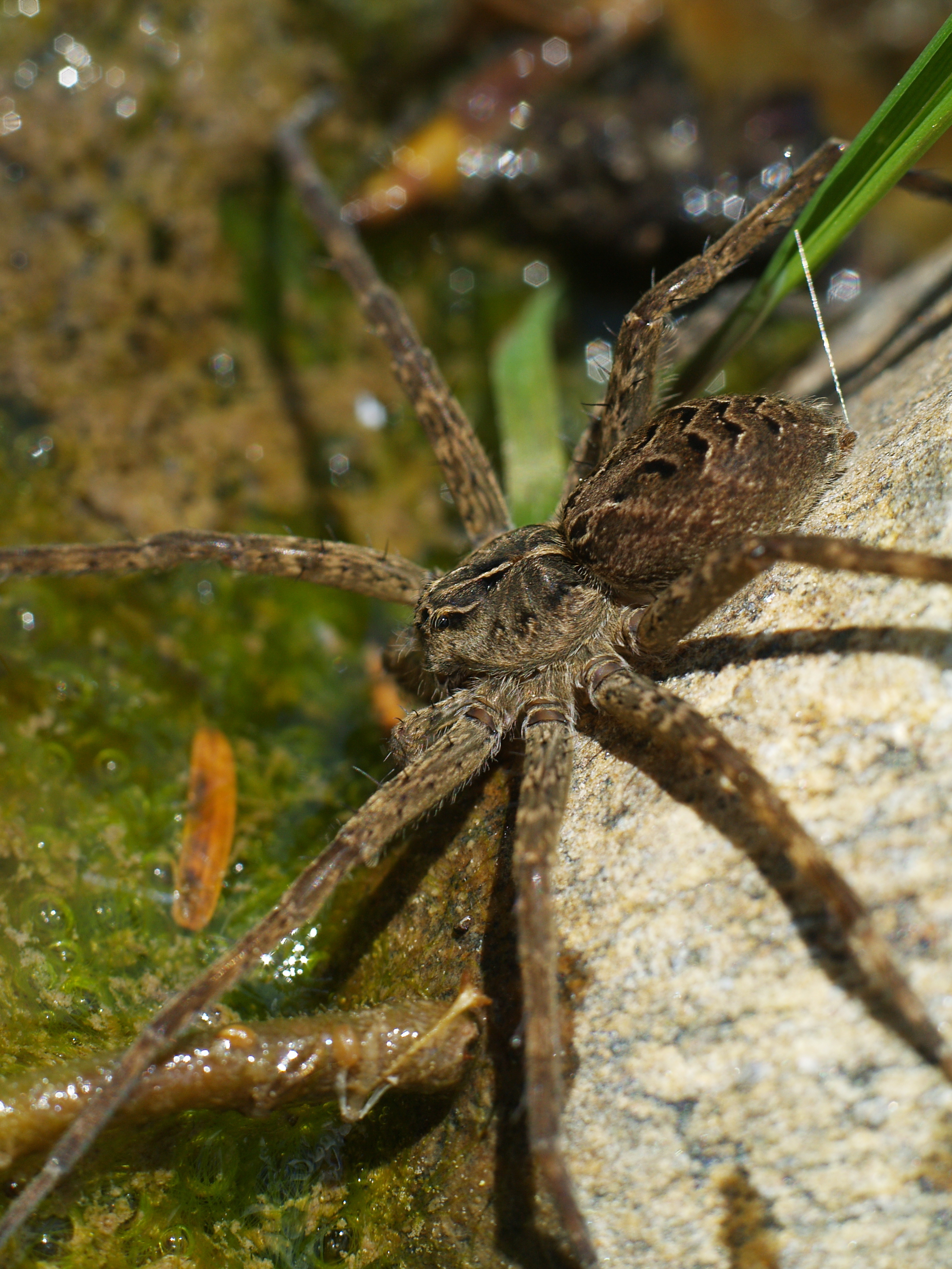 Young female Dolomedes tenebrosus, observed at a local creek in western New York state. D. tenebrosus has several different color morphs across its range, from the cooler gray-brown seen here to a more warmer reddish brown and differing markings on the abdomen.